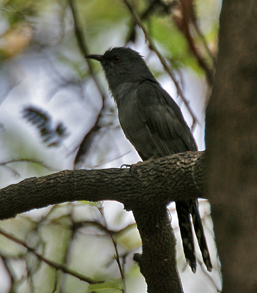 Grey-bellied Cuckoo Cacomantis passerinus in Secunderabad , India.